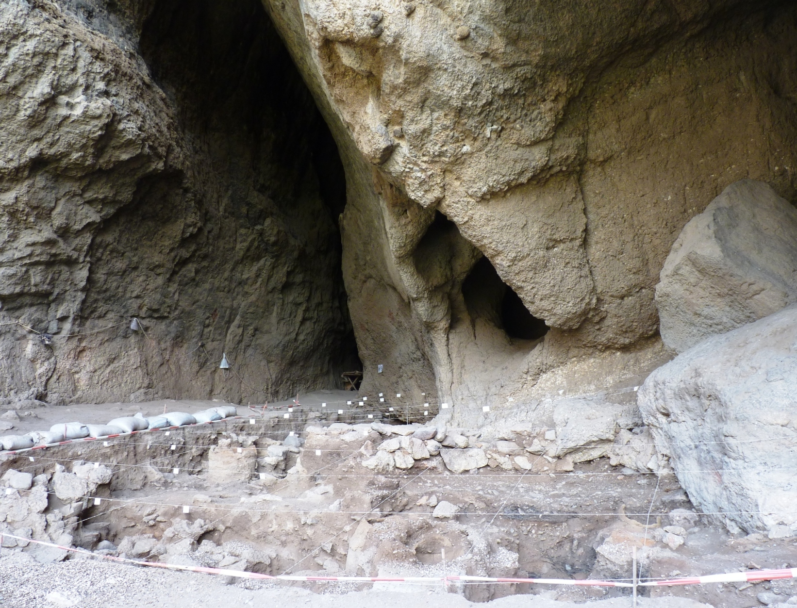 The archaeological site of Areni-1 is still being excavated in 2012. It sits in an elevated position above Areni village, with swallow nests on the ceiling of the wide entrance.